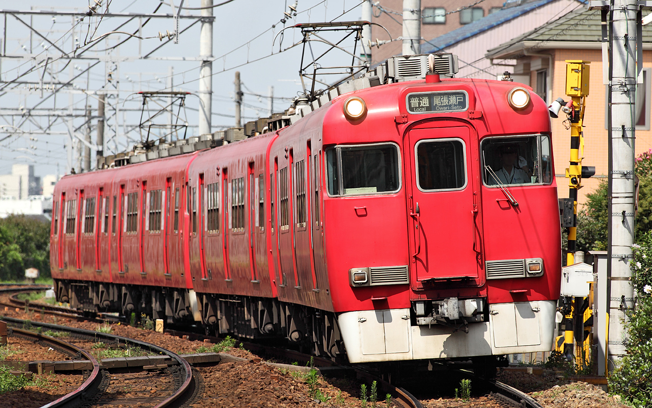 Meitetsu 6600 series EMU between Yada Sta. and Moriyama-Jieitai-Mae Sta.